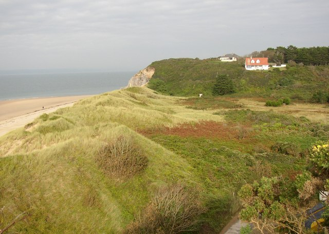 View from the watchtower chapel, Caldey Island Looking along the dunes to the High Cliff headland.